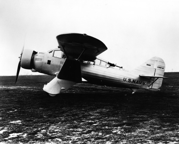 PictionID:40959615 - Catalog:Array - Title:Array - Filename:16_000163 Bellanca XSE-2 9186.tif - - - Ray Wagner was Archivist at the San Diego Air and Space Museum for several years and is an author of several books on aviation --- ---Please Tag these images so that the information can be permanently stored with the digital file.---Repository: San Diego Air and Space Museum